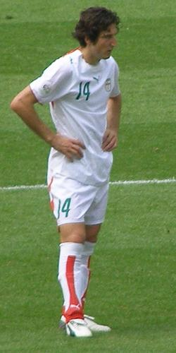 Andranik Teymourian an Armenian-Iranian football player